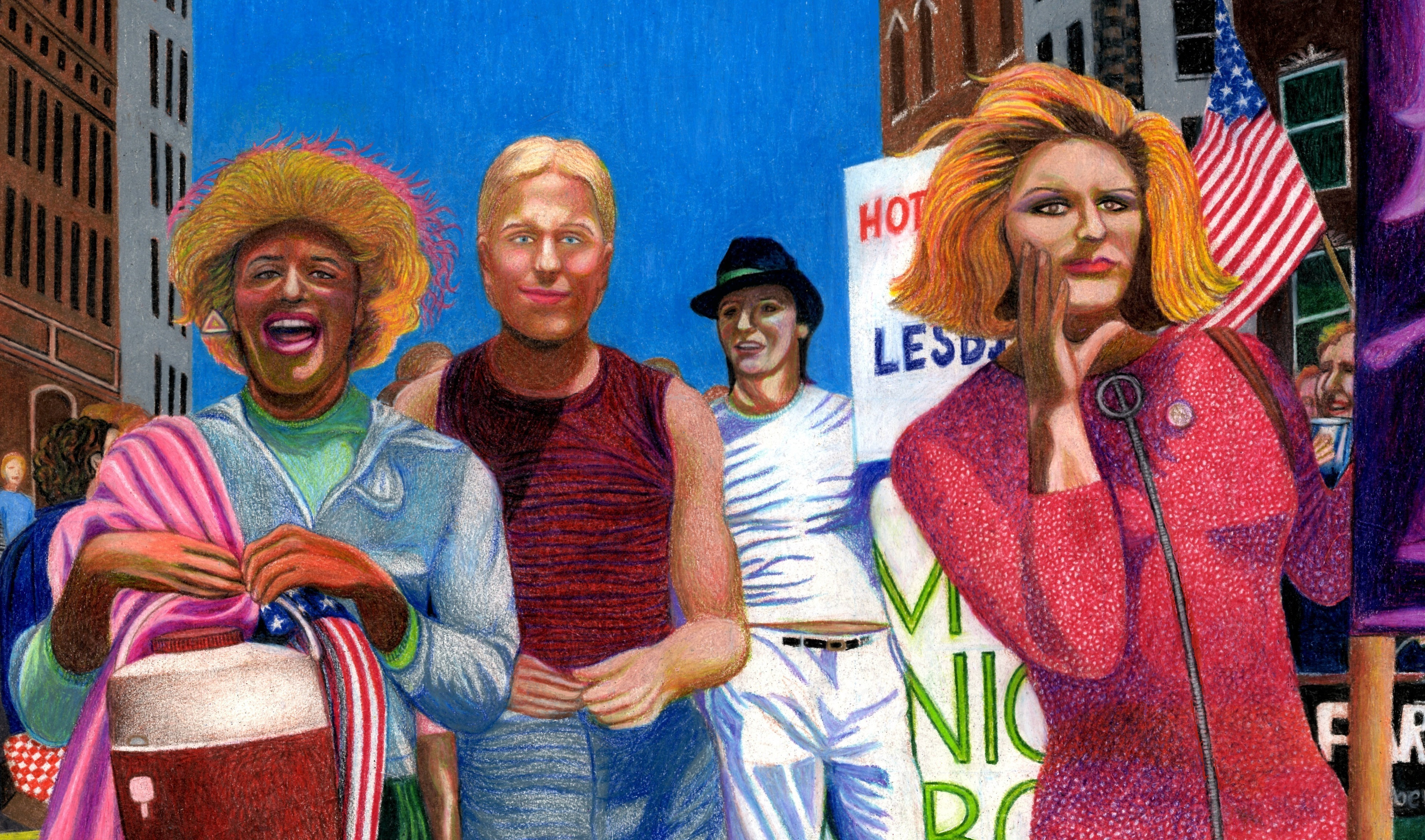 Marsha, Joseph and Sylvia march down Seventh Avenue in 1973.